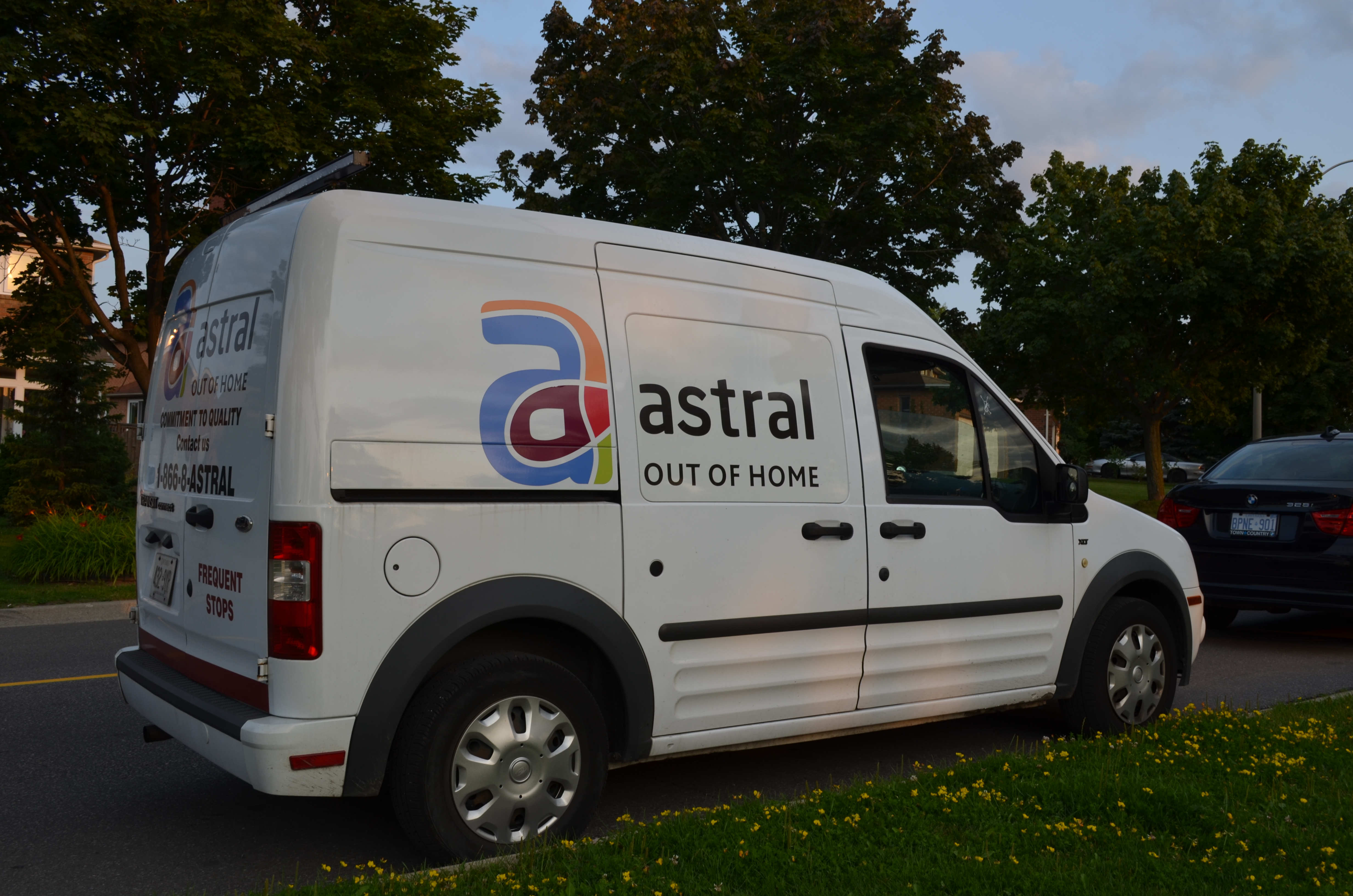 Astral Media Vehicle - Astral acquired by Bell Canada in 2013.